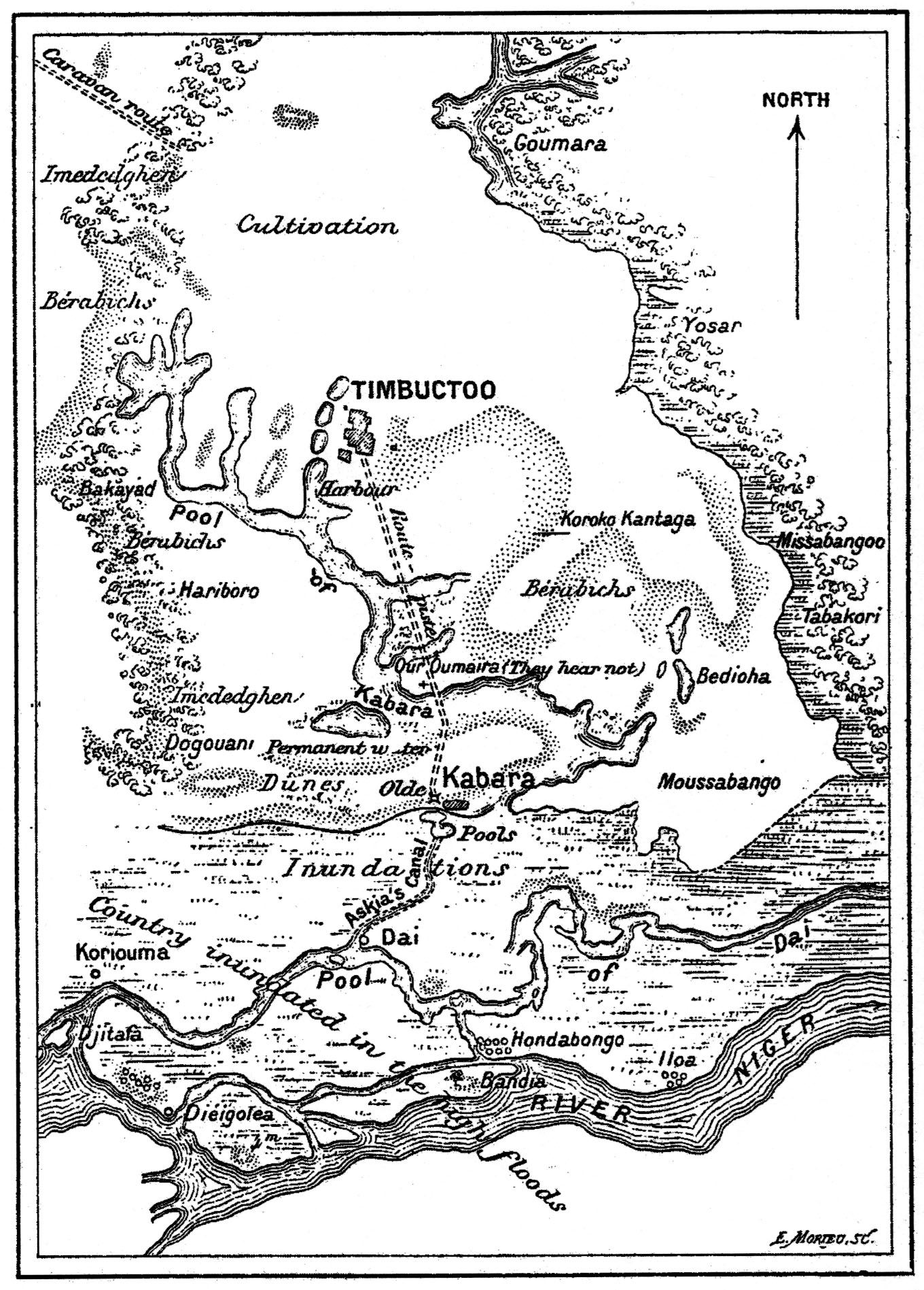 Map of the Timbuktu area of Mali showing the Niger River and Kabara.